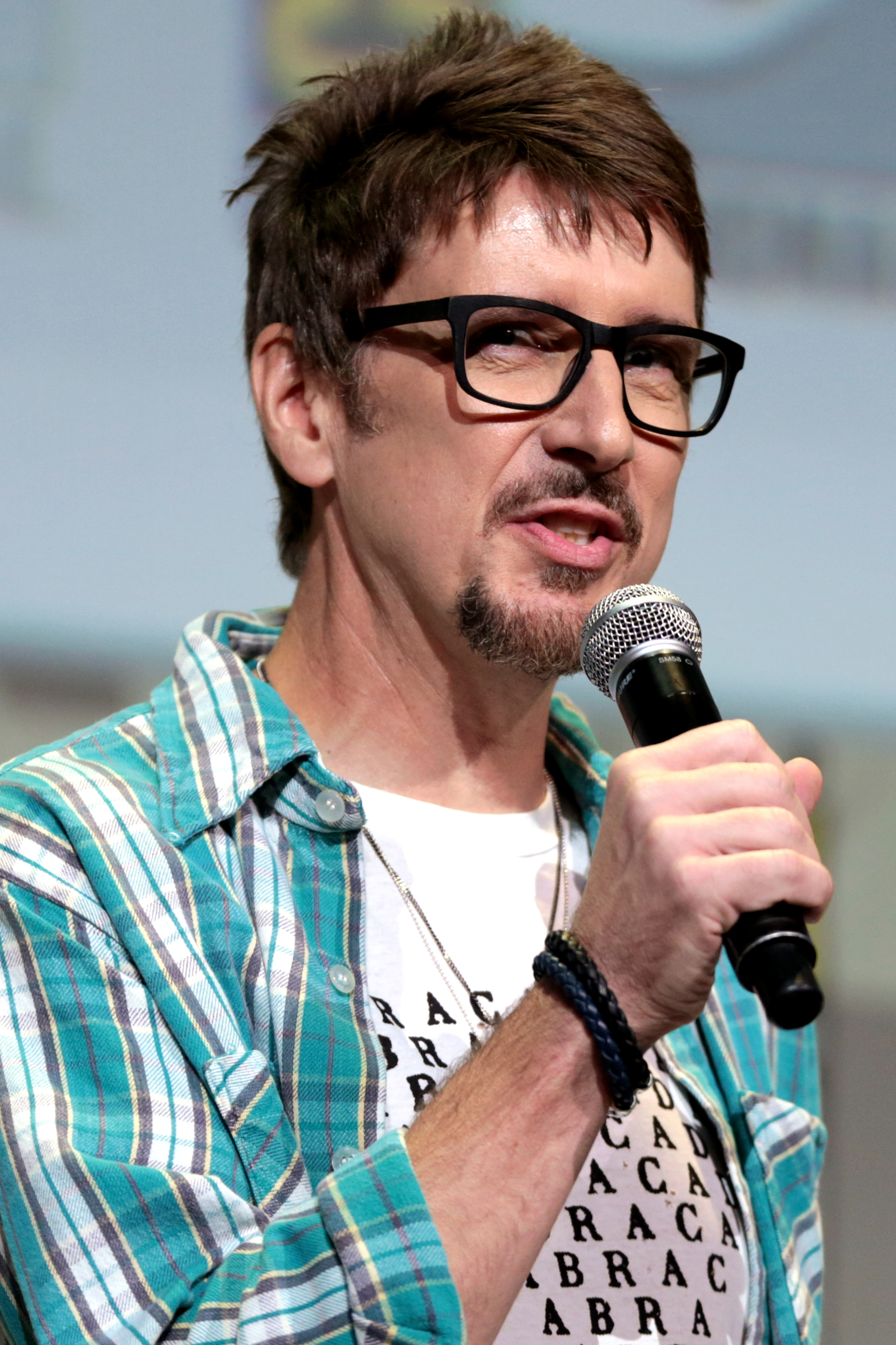 Scott Derrickson speaking at the 2016 San Diego Comic Con International, for "Doctor Strange", at the San Diego Convention Center in San Diego, California.